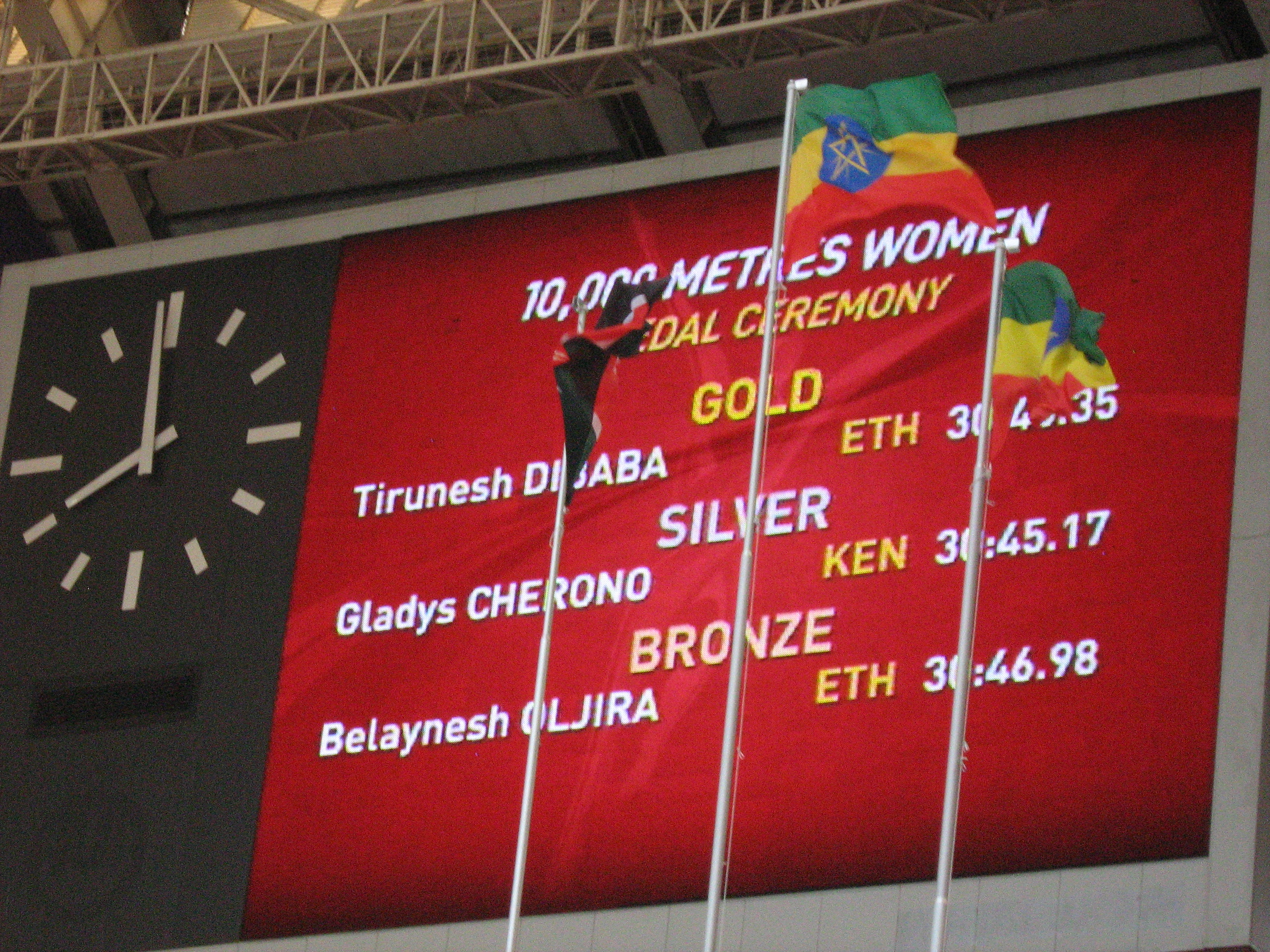 The second day of the World Championships in Athletics in Moscow 2013